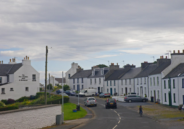 Resettlement houses in central Port Charlotte The buildings at image right are from the time of the land clearances of the mid 18th century.